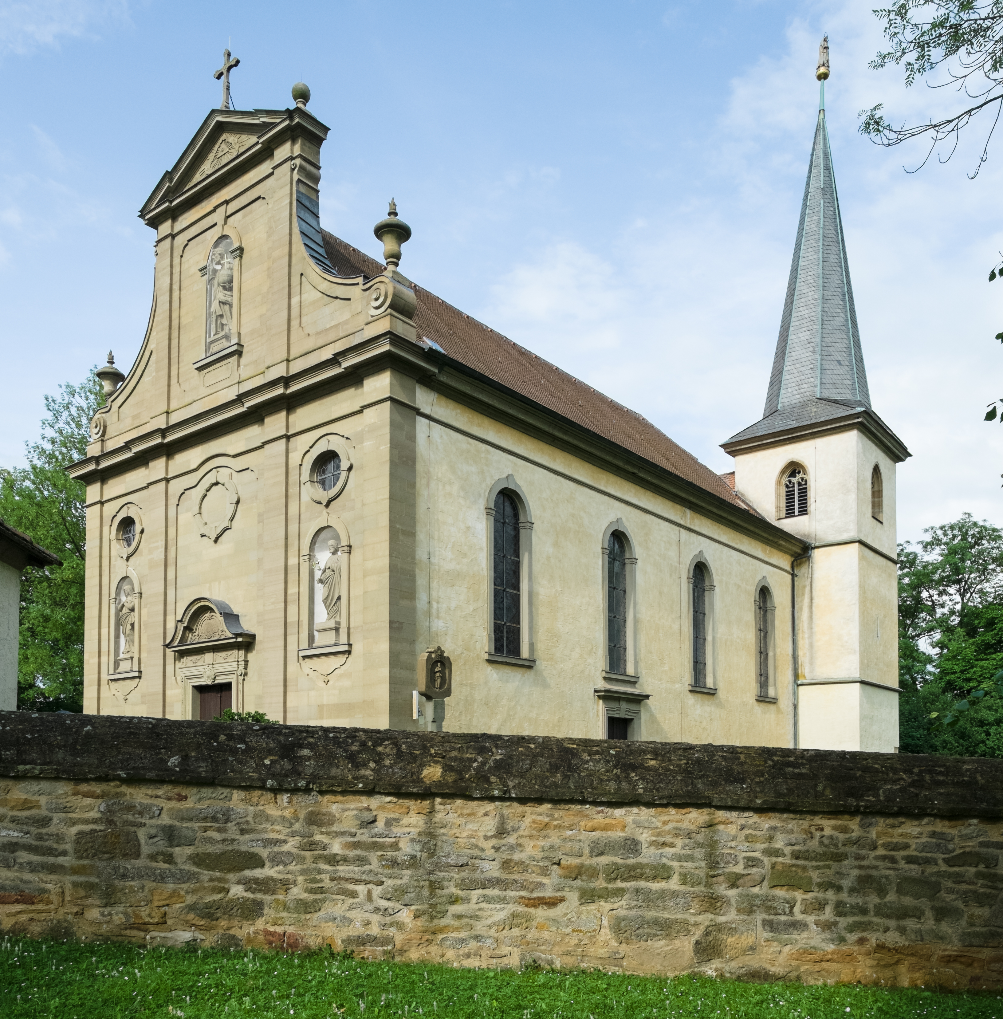 Pilgrimage church Mariä Heimsuchung, Findelberg, Saal an der Saale, county Rhön-Grabfald, Bavaria, Germany. Note: The tower on the right is not straight.